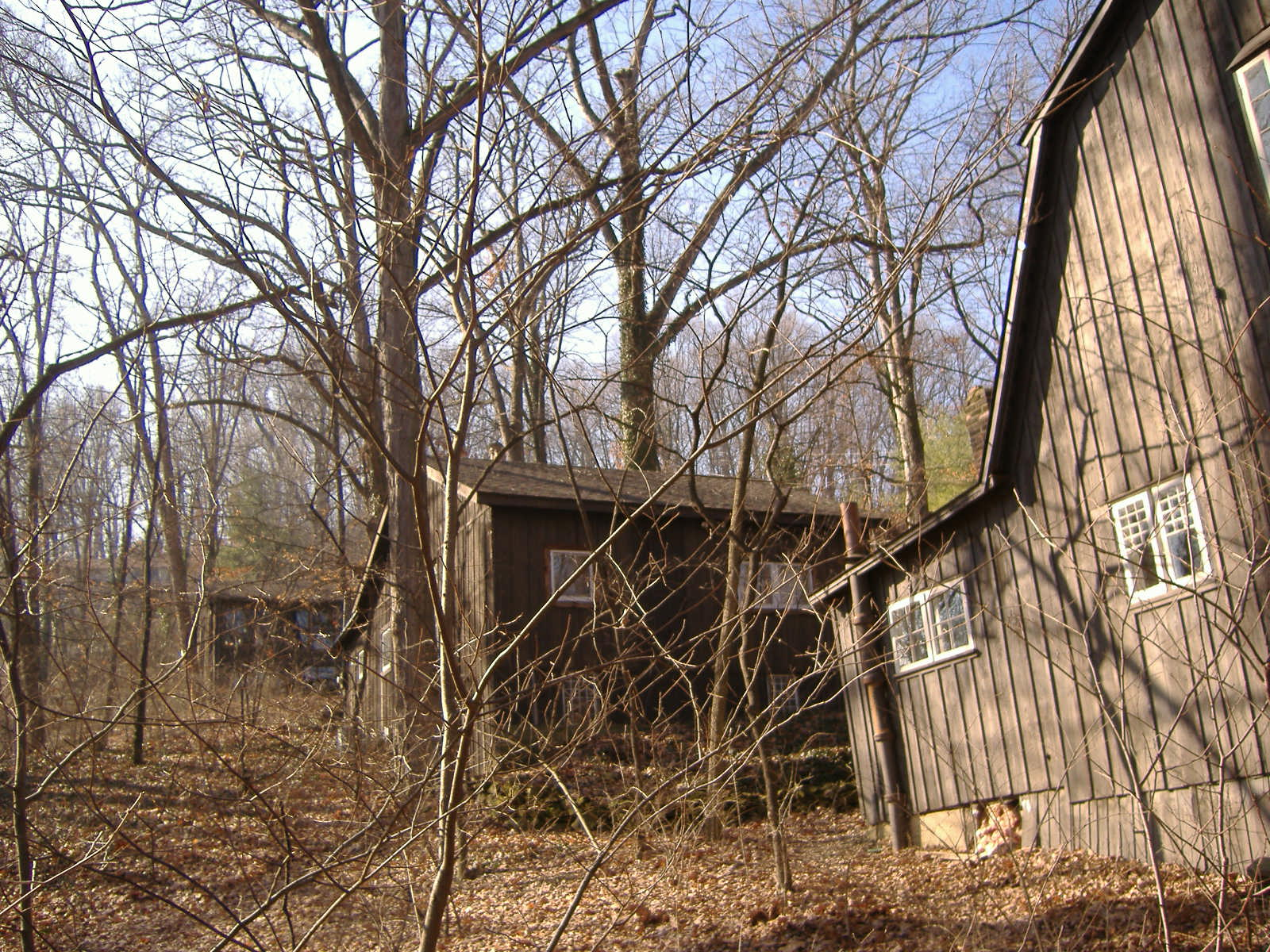 The Little Loomhouse cabins of Louisville, Kentucky.